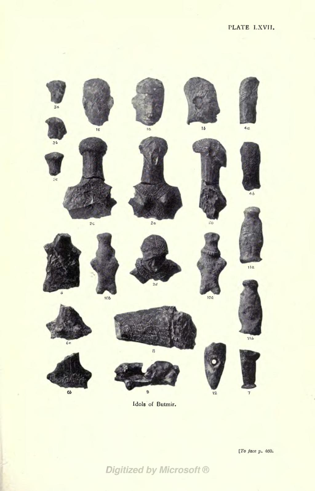 Idols of Butmir. [To face p. 460.